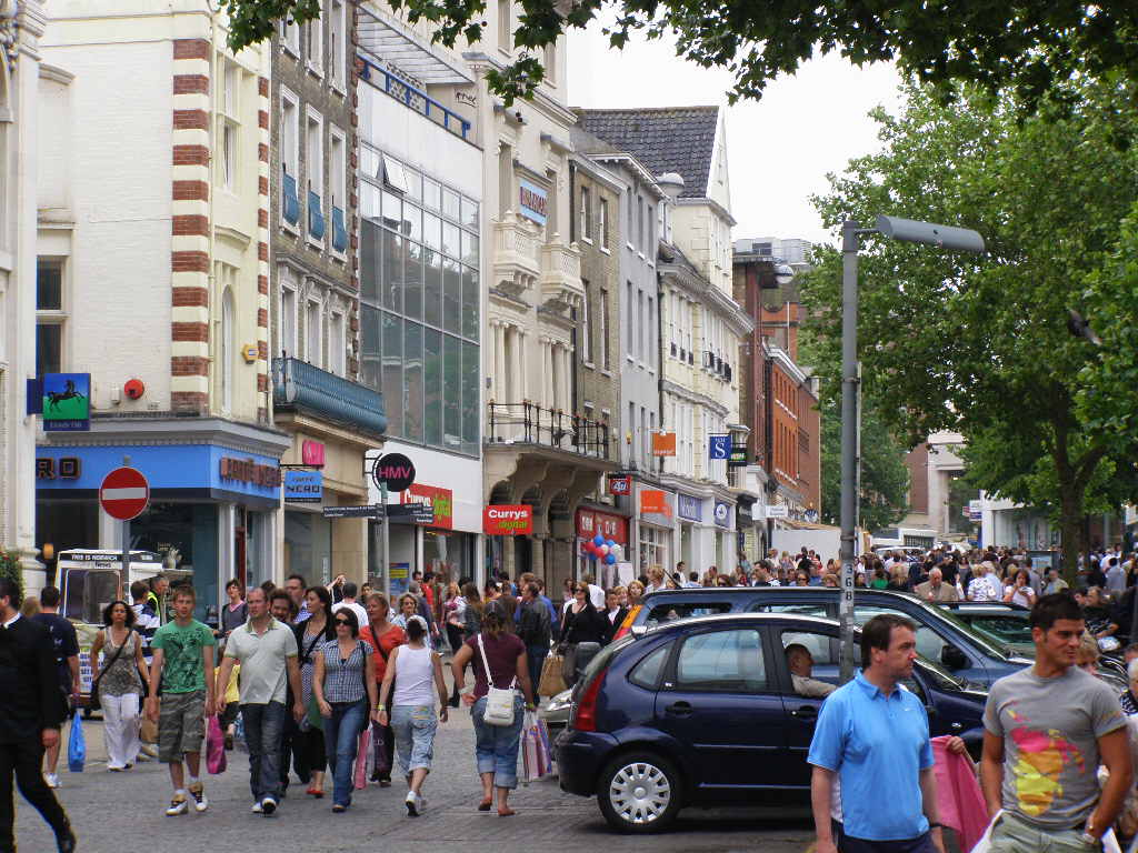 Gentleman's Walk, Norwich